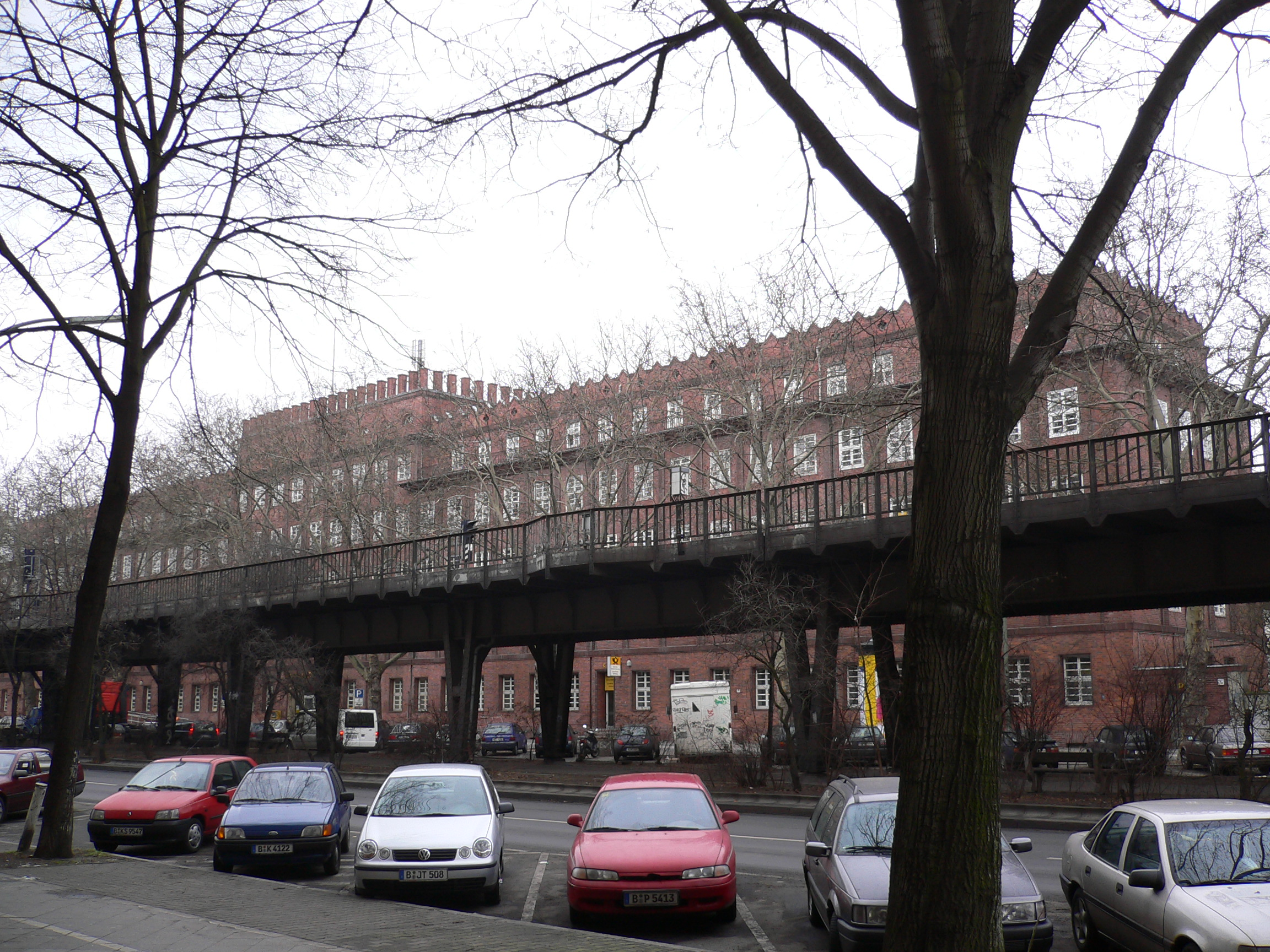 Berlin-Kreuzberg, Germany – post office in Kreuzberg, SO 36